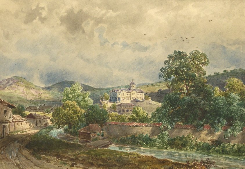 Kalofer Monastery by Felix Kanitz